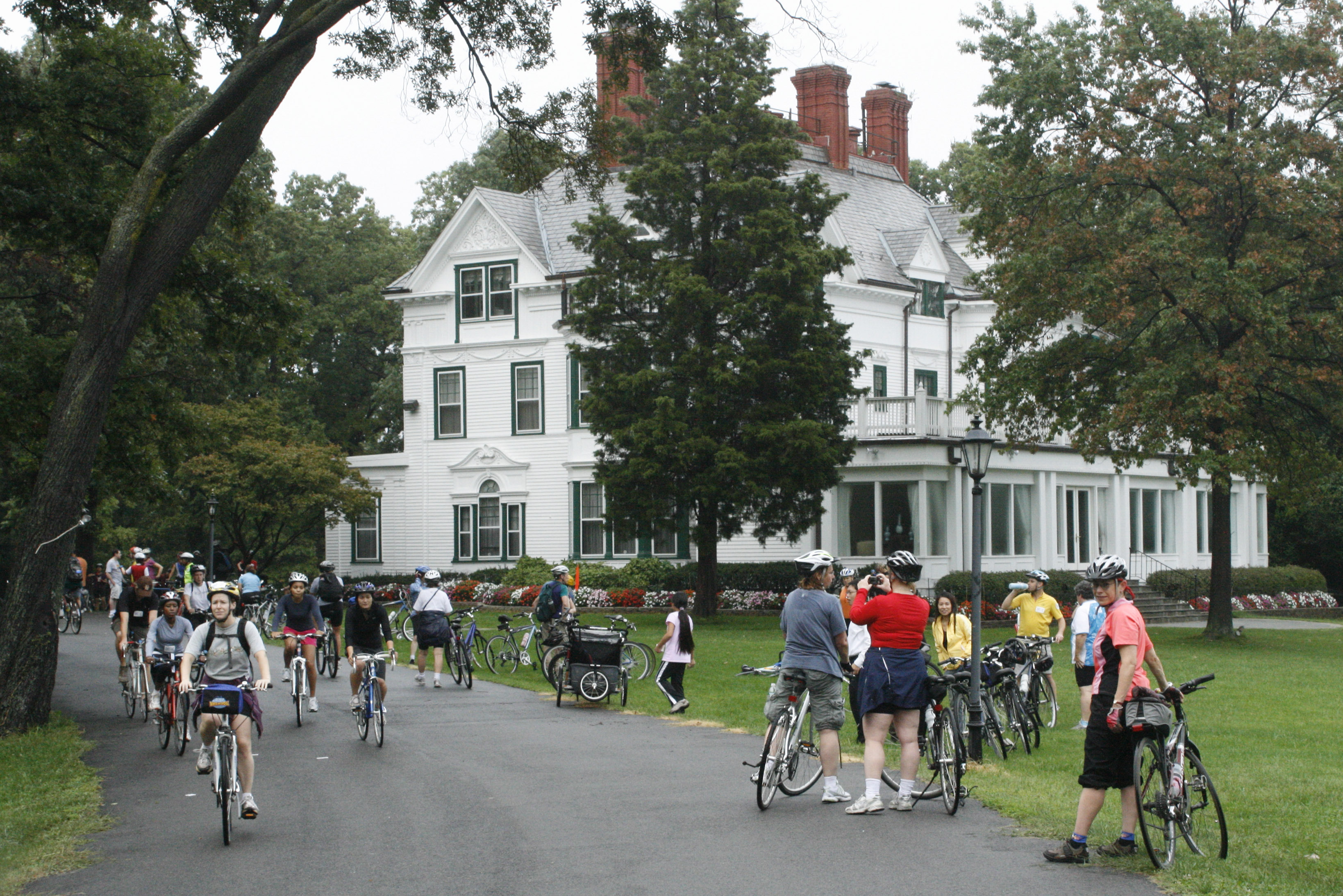 Twin Oaks on the NRHP in Washington, DC. since February 5, 1986. At 3225 Woodley Rd. NW. Alexander Graham Bell lived here though it was owned by his father-in-law. The Republic of China (Taiwan) had its ambassador's residence here and still controls the property, perhaps indirectly. from